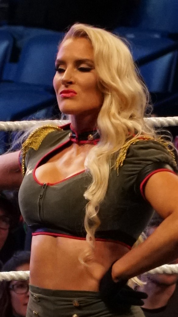 Lacey Evans at NXT TakeOver: New Orleans in April 2018.